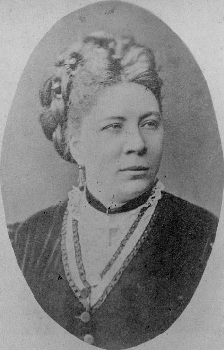 Belgian opera singer Désirée Artôt (1835–1907)